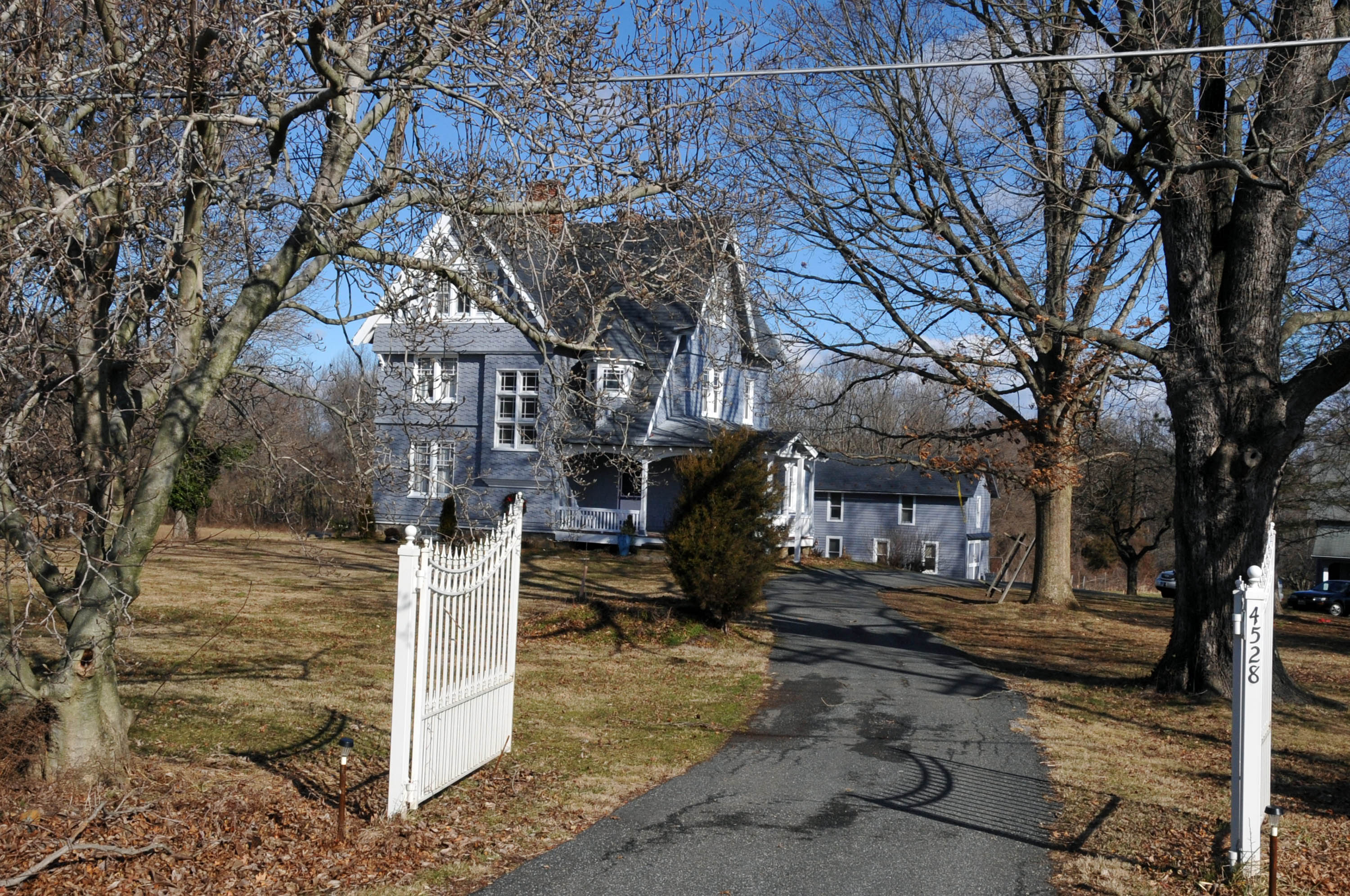 1880’S QUEEN ANNE HOUJSE FROM THE EARLY WORK OF WALTER COPE, DISTINGUISHED PHILADELPHIA ARCHITECT, in Darlington, Harford County, Maryland, USA